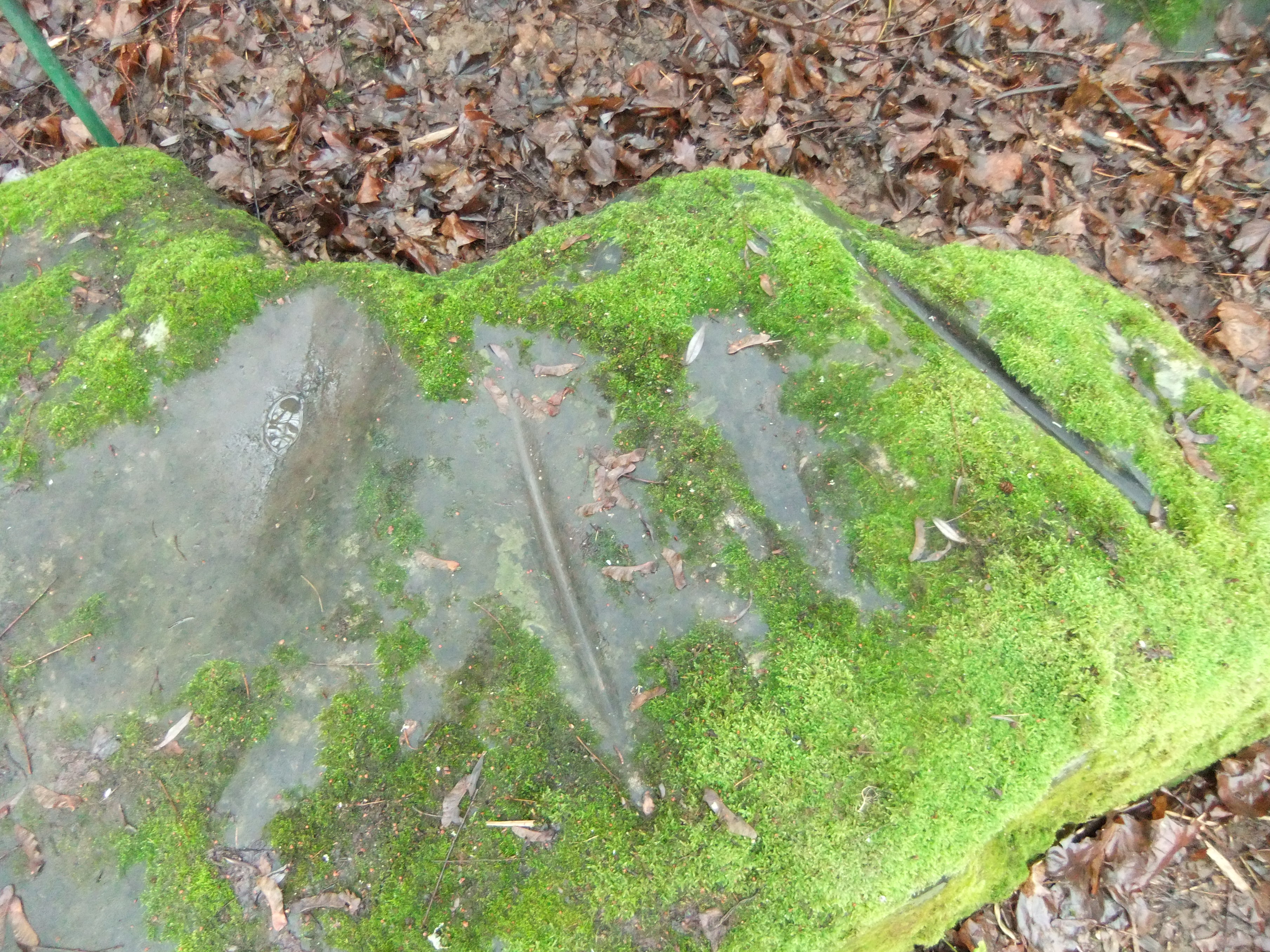 The Kirkkovalkama Lahdentaka Groove Stone at Tyrväntö, Hattula, Finland. An Iron Age heritage site.